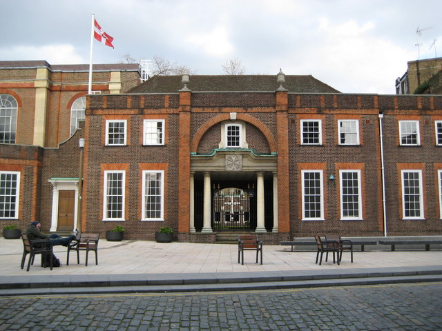 Clerkenwell: The Order of St John, EC1. The gates lead through to the cloisters of the Order of St John on the north side of Clerkenwell Road, while a rough sleeper gets his head down outside.